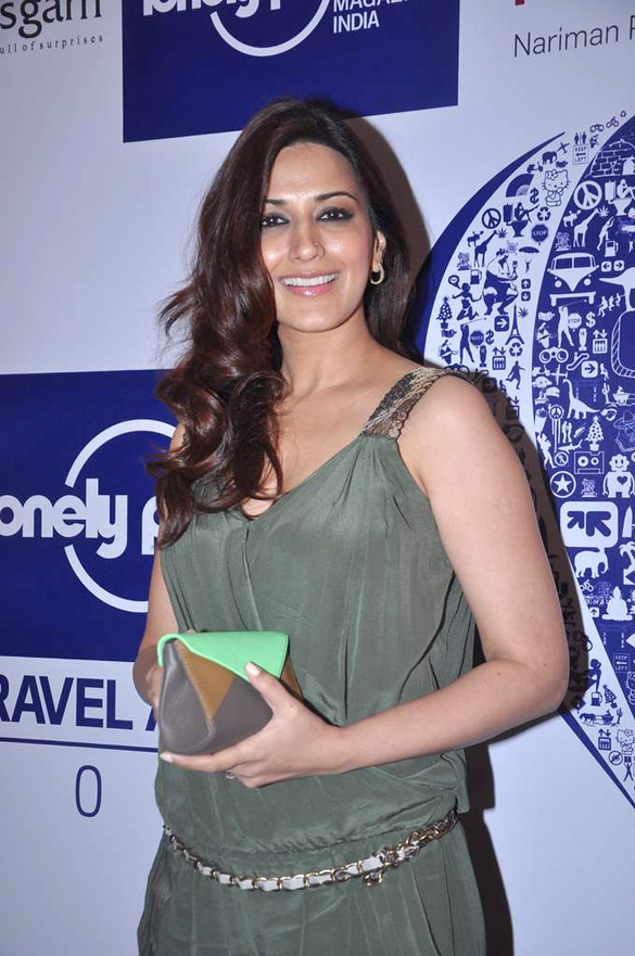 Sonali bendre lonely planet